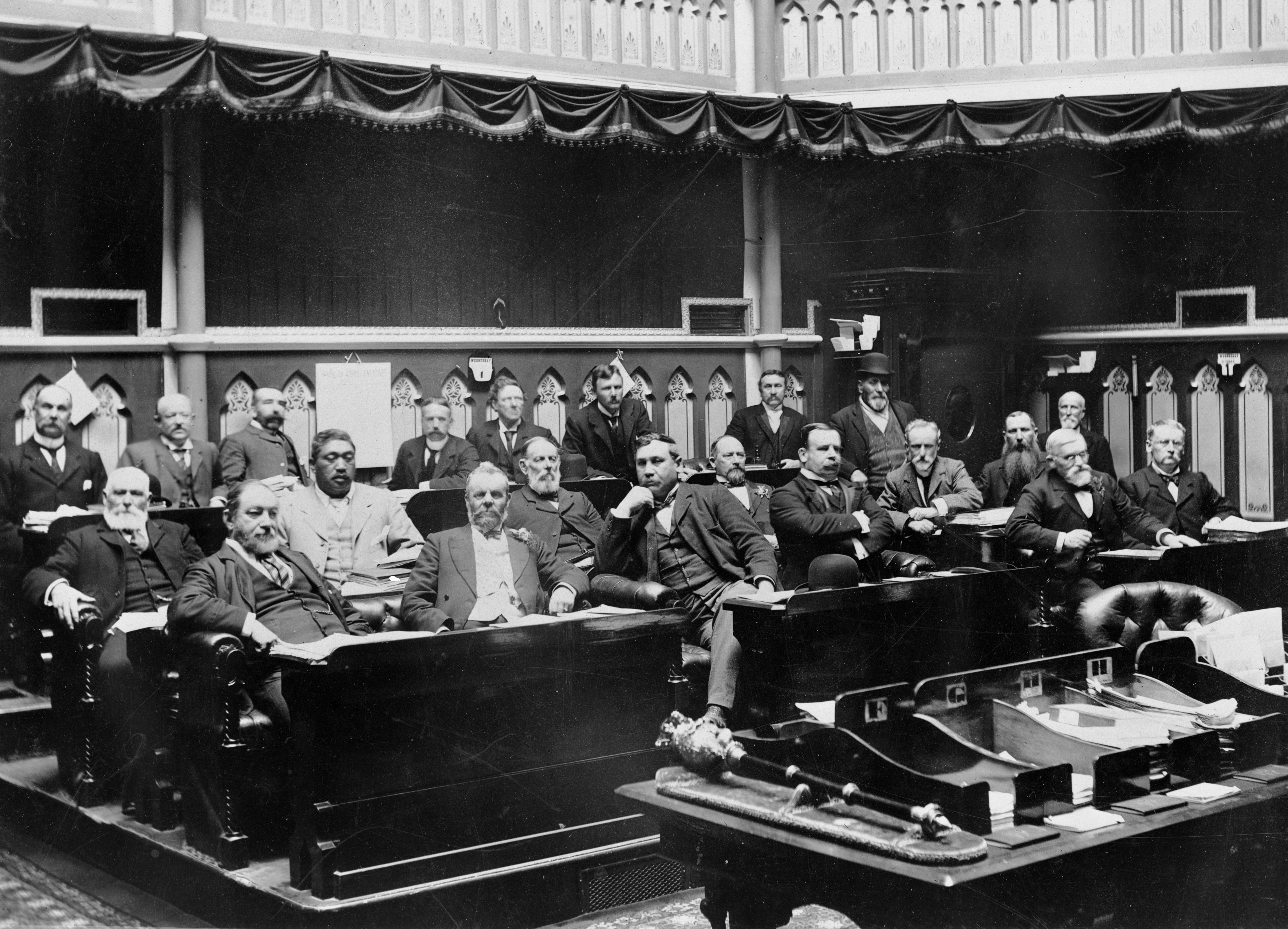 Shows members of the House of Representatives ca 1900-1902. Back row, left to right: Walter Symes (Egmont), John O'Meara (Pahiatua), Alfred Levavasour Durrell Fraser (Napier), Jackson Palmer (Ohinemuri), Charles Hall (Waipawa), William Hughes Field (Otaki), Joseph H Witheford (Auckland) Wiremu Pere (Eastern Maori). Centre row: James Bennet (Tuapeka), Henare Kaihau (Western Maori), Thomas Young Duncan (Oamaru, Minister of Lands), Charles Houghton Mills (Wairau, Commissioner of Trade and Customs), Walter C F Carncross (Taieri), John Stevens (Manawatu). Front row: Alexander W Hogg (Masterton), E M Smith (Taranaki), James Carroll (Waiapu, Minister of Native Affairs), Sir Joseph George Ward (Awarua, Colonial Secretary) and William Hall-Jones (Timaru, Minister of Public Works).